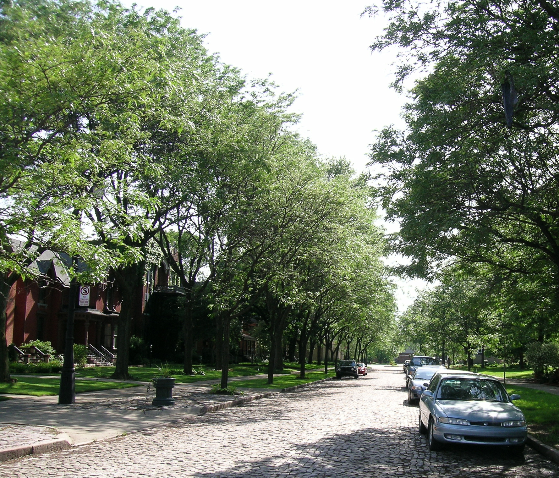 The West Canfield Historic District, along West Canfield Avenue in Detroit, Michigan, United States, is listed on the US National Register of Historic Places (NRHP).NRHP reference numbers 71000433, 97001092